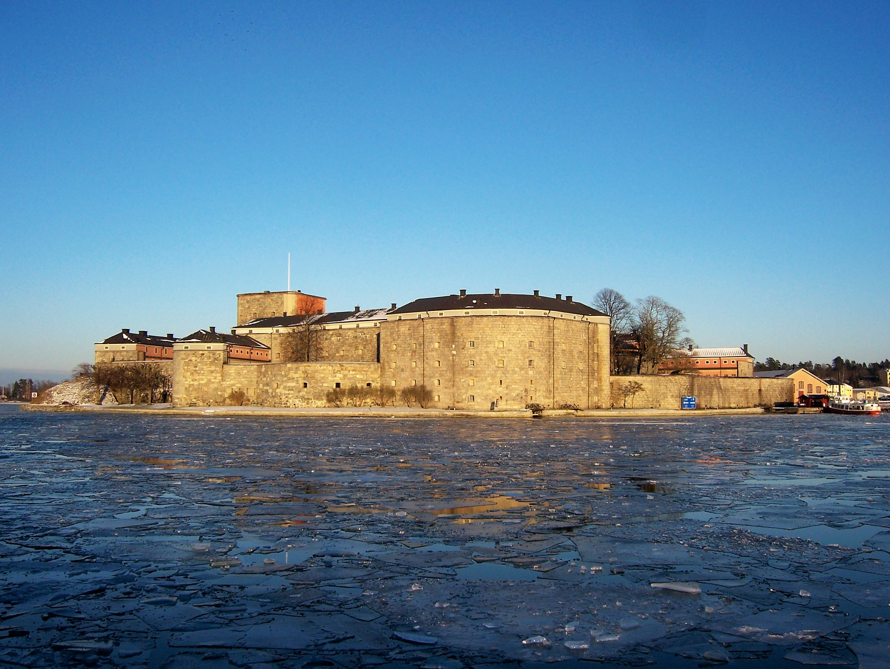 View of Fort from Vaxholm.